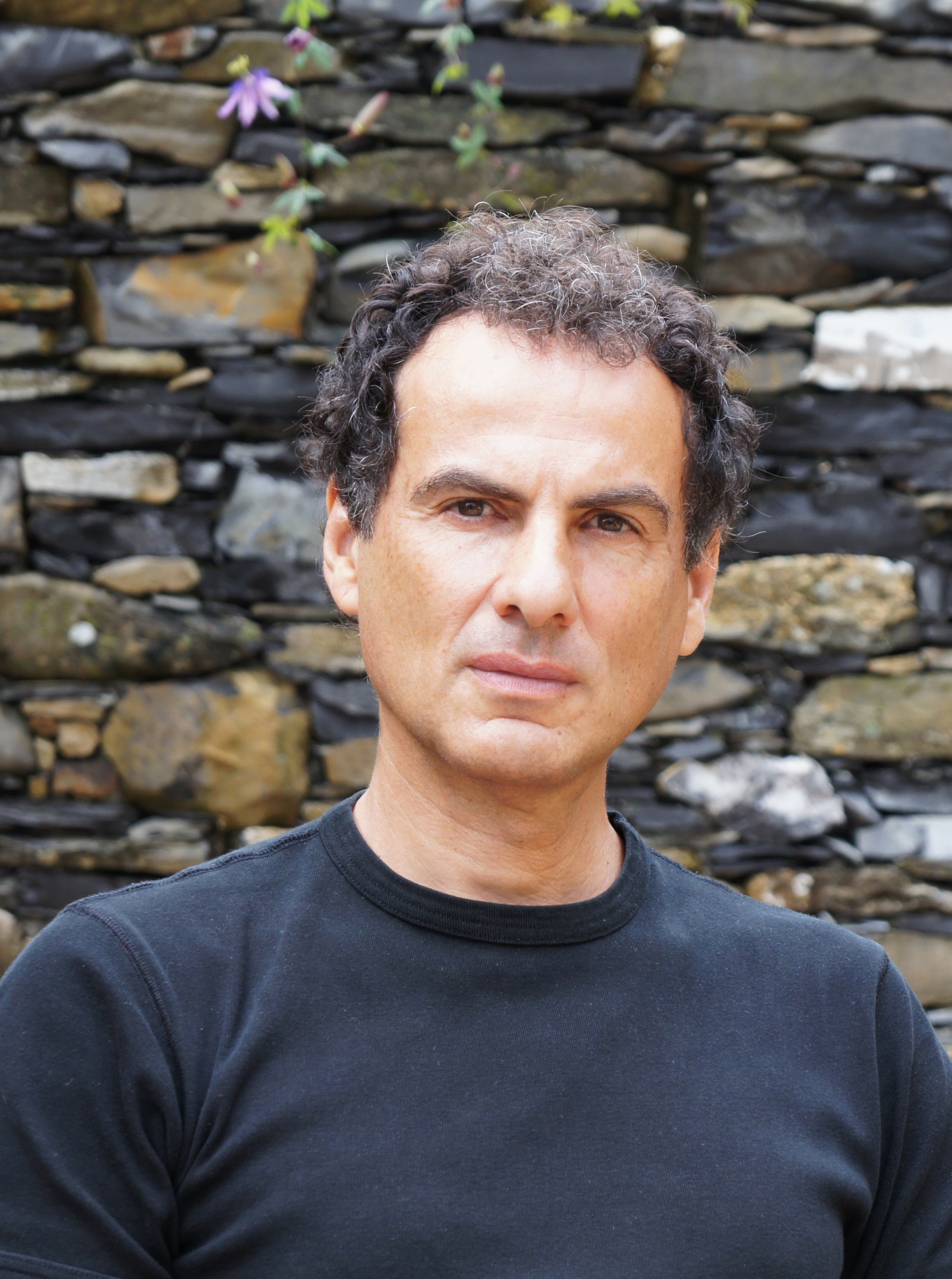 A photo portrait of Italian novelist Andrea De Carlo.